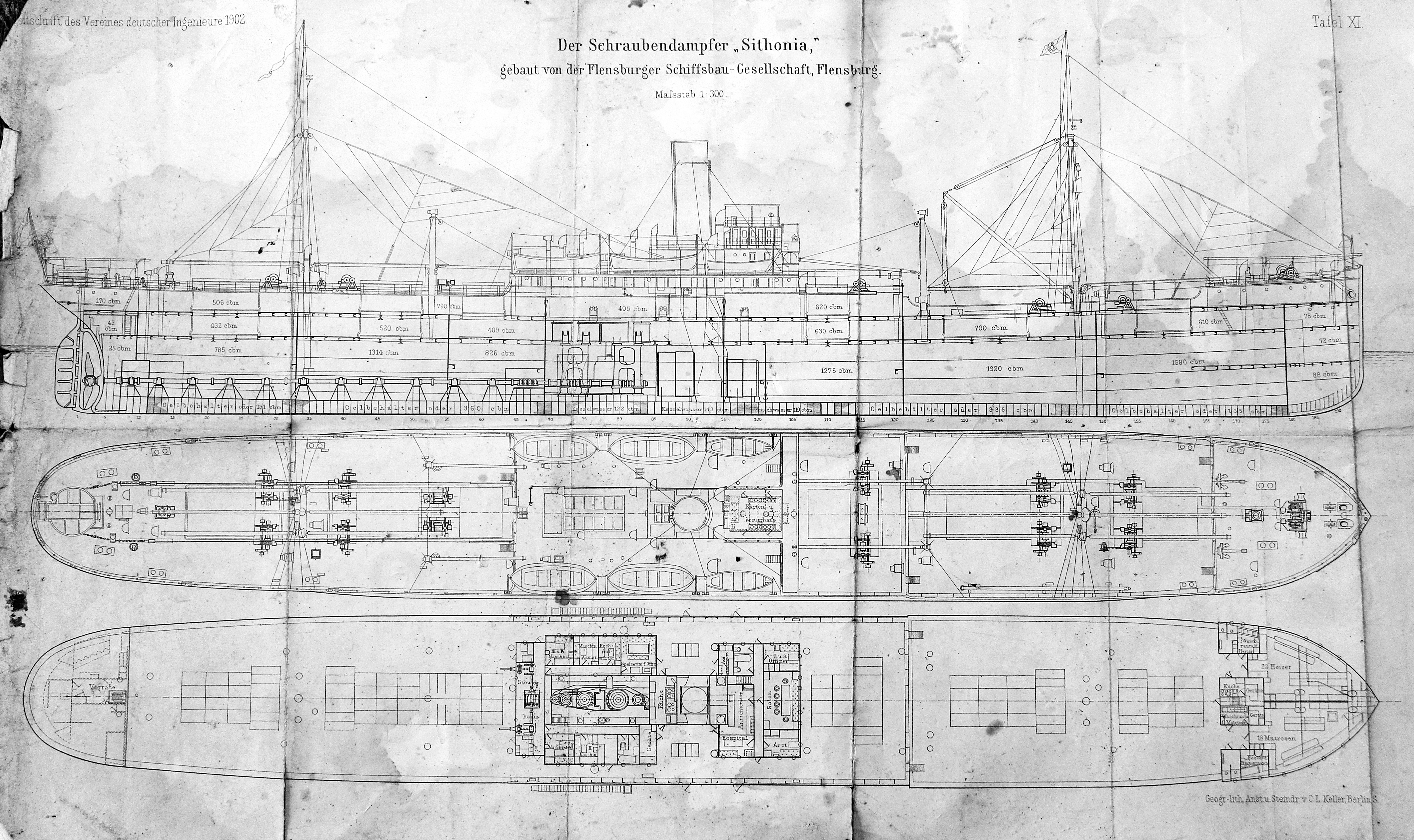 Steam Ship Sithonia